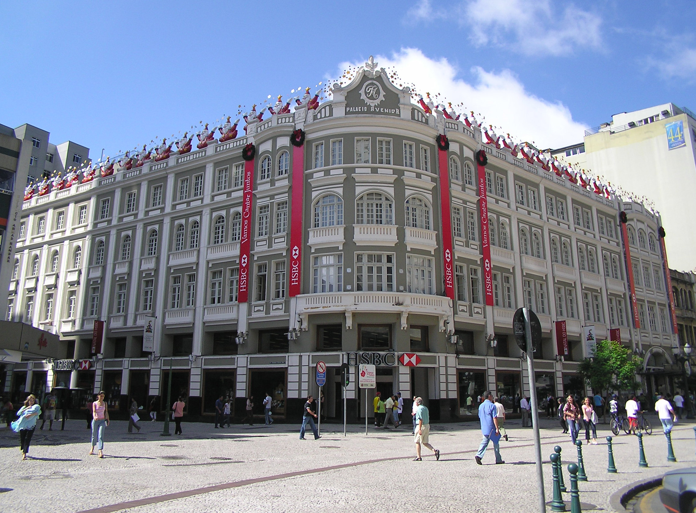 Palácio Avenida, the headquarters of HSBC Brazil. This building is on the Avenida Luís Xavier.